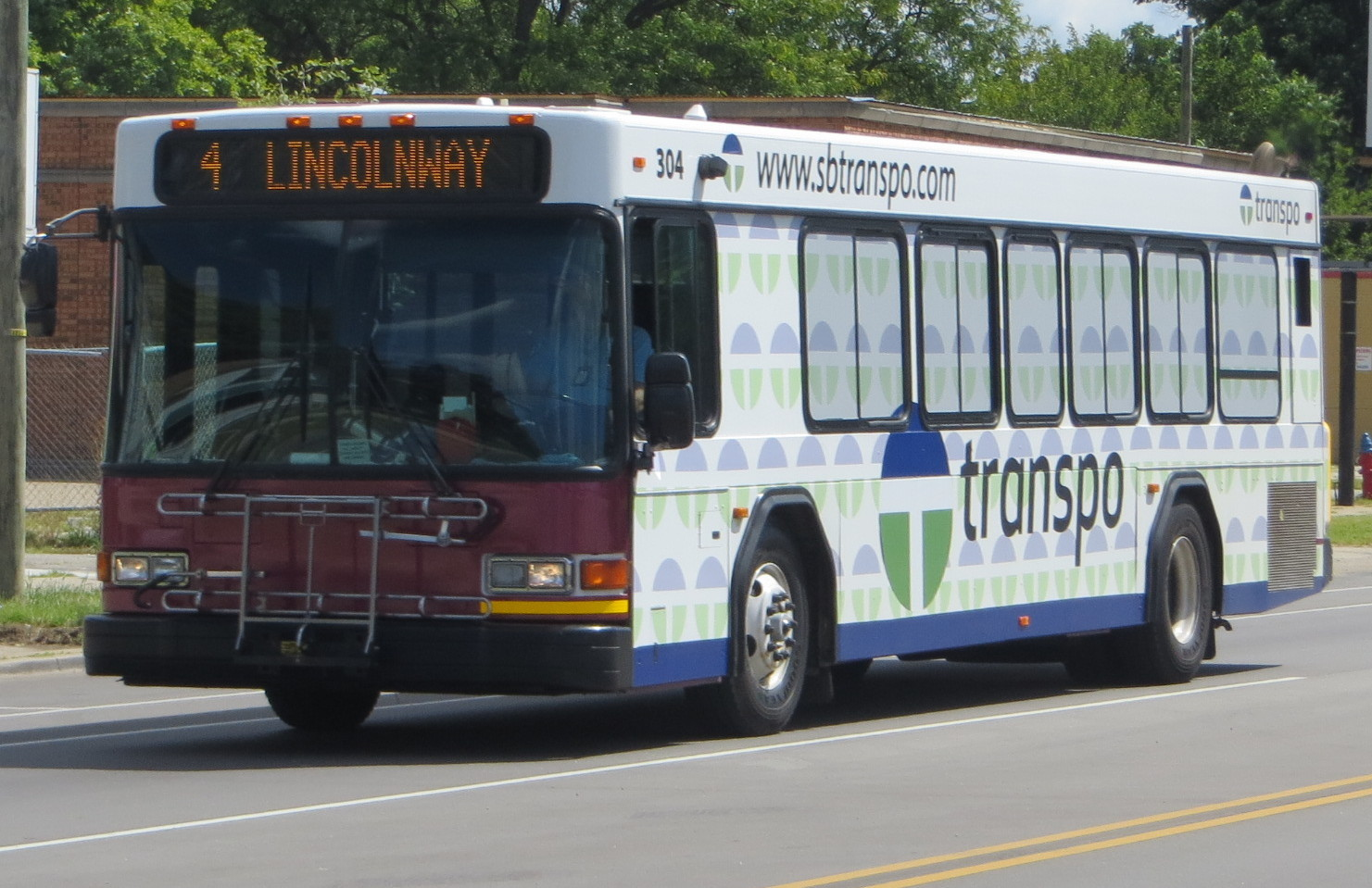 20150824 04 SB Transpo bus, South Bend, Indiana